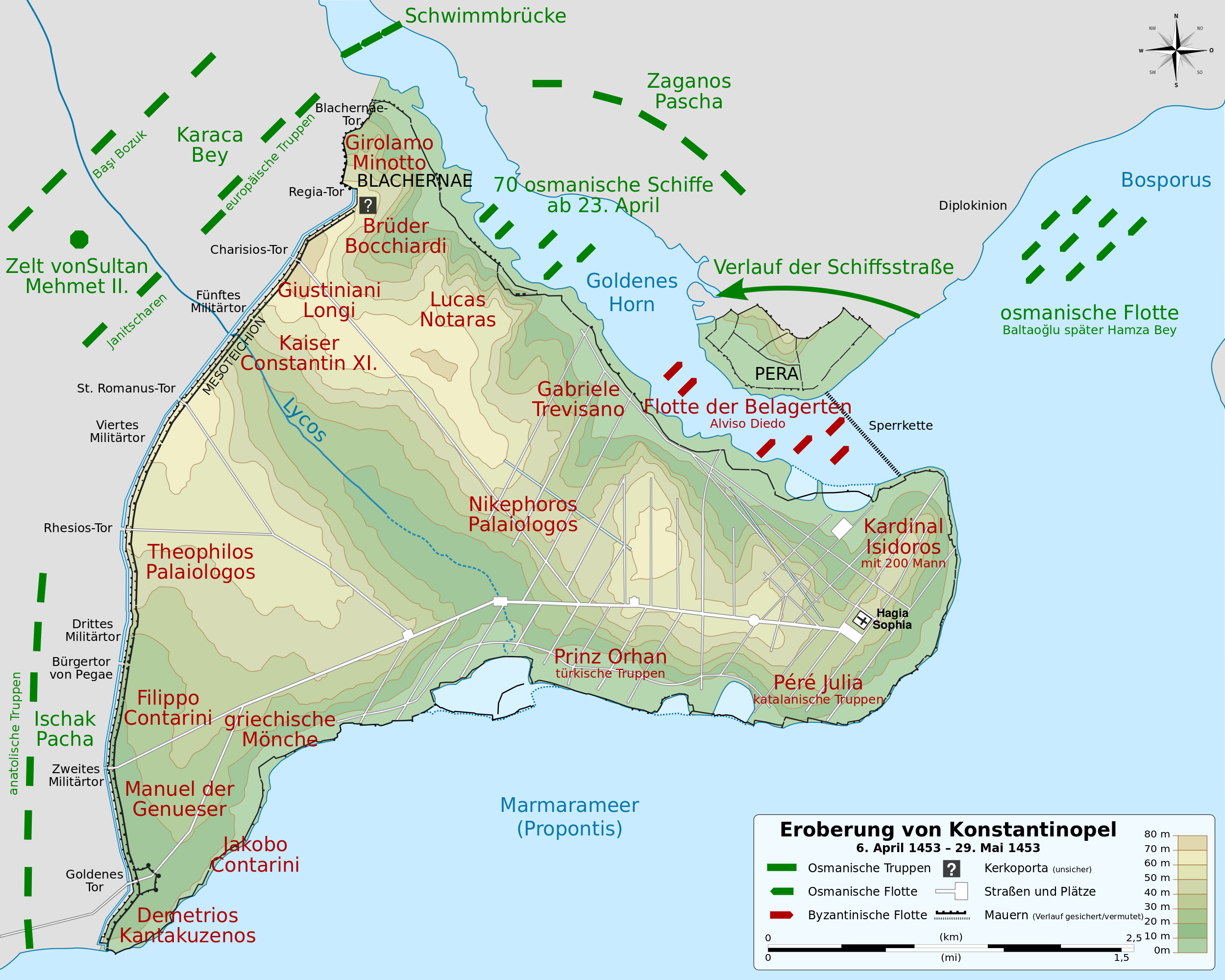 Map of the Ottoman and Byzantine forces during the siege of Constantinople, from 6 April 1453 to 29 May 1453. French version.